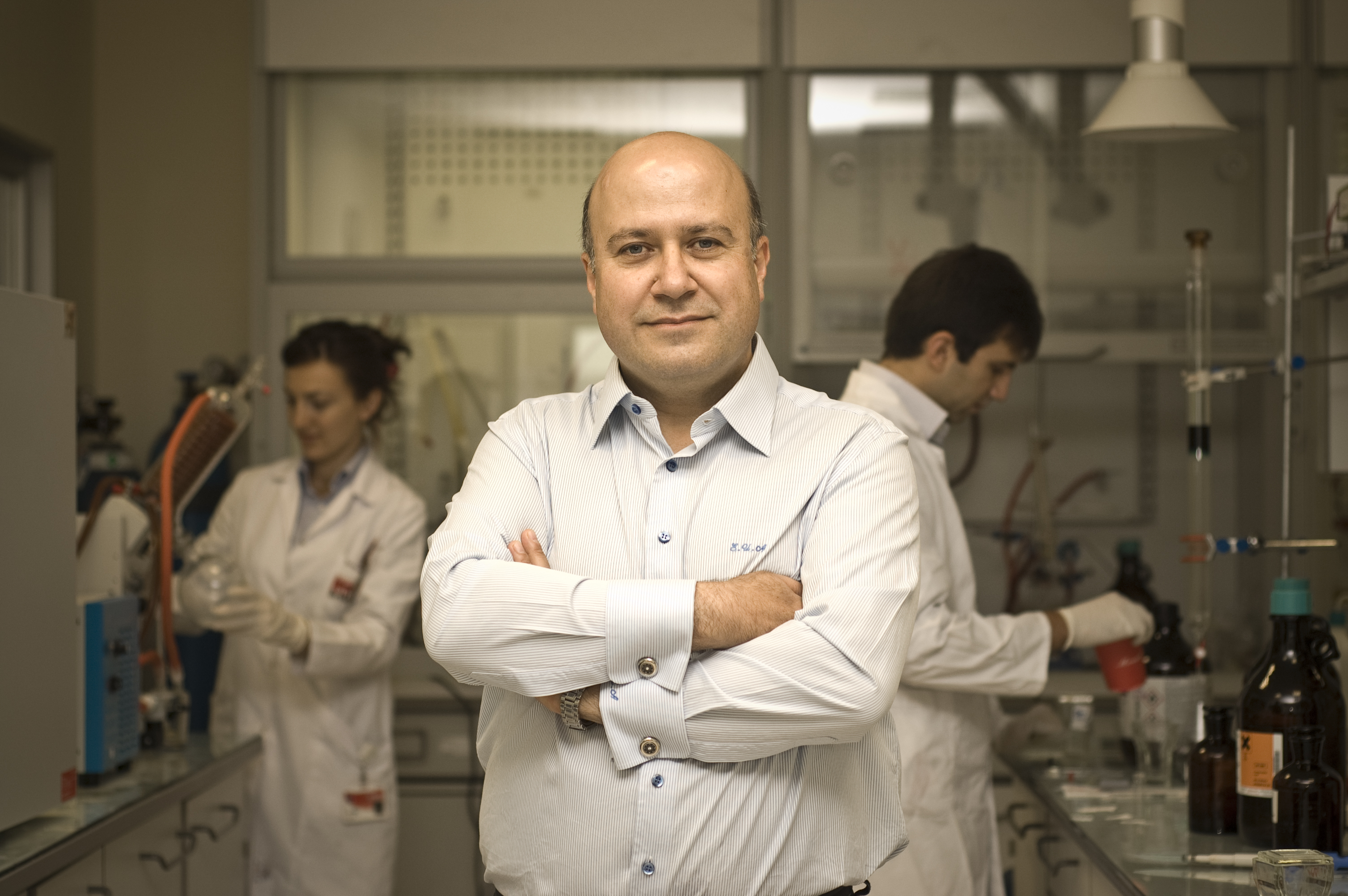 Engin Umut Akkaya is one of the leading scientists in molecular fluorescence and molecular logic gates. In this photo you can see him in his lab with his PhD students in the Bilkent University UNAM, Ankara, Turkey, in 2010.